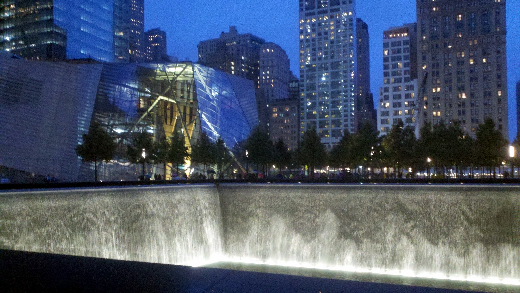 This is a photo I took of the north pool and the soon to be museum at the September 11th Memorial in New York City.